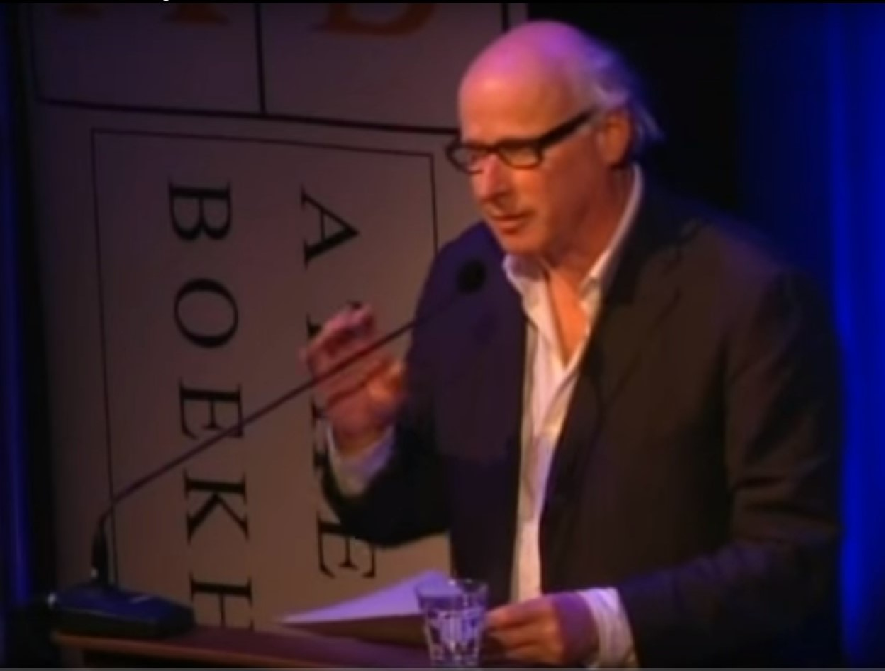 Dutch writer Oek de Jong